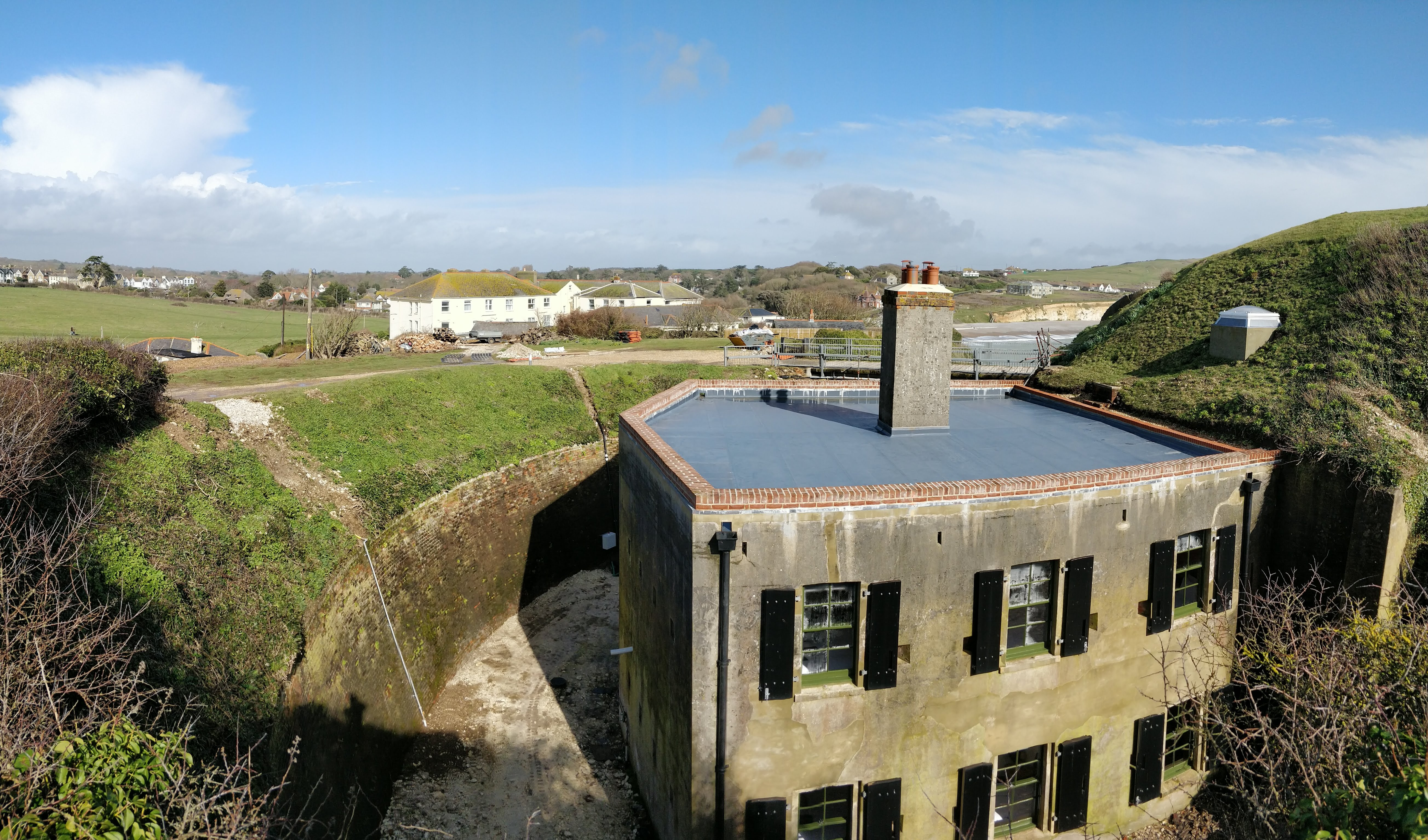 Caponier from South side of ditch looking East